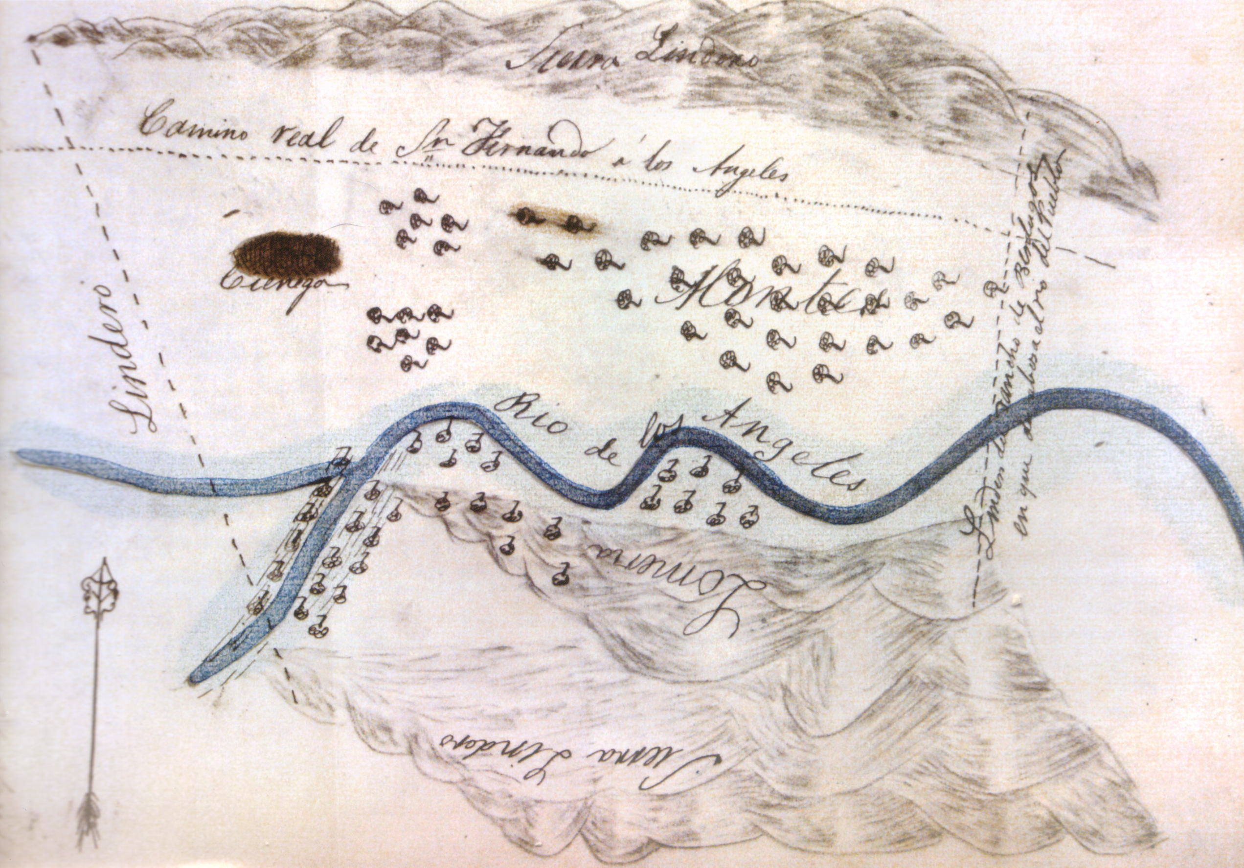 Sketch map or diseño of the Scott Tract of Rancho San Rafael (eastern Burbank, California).